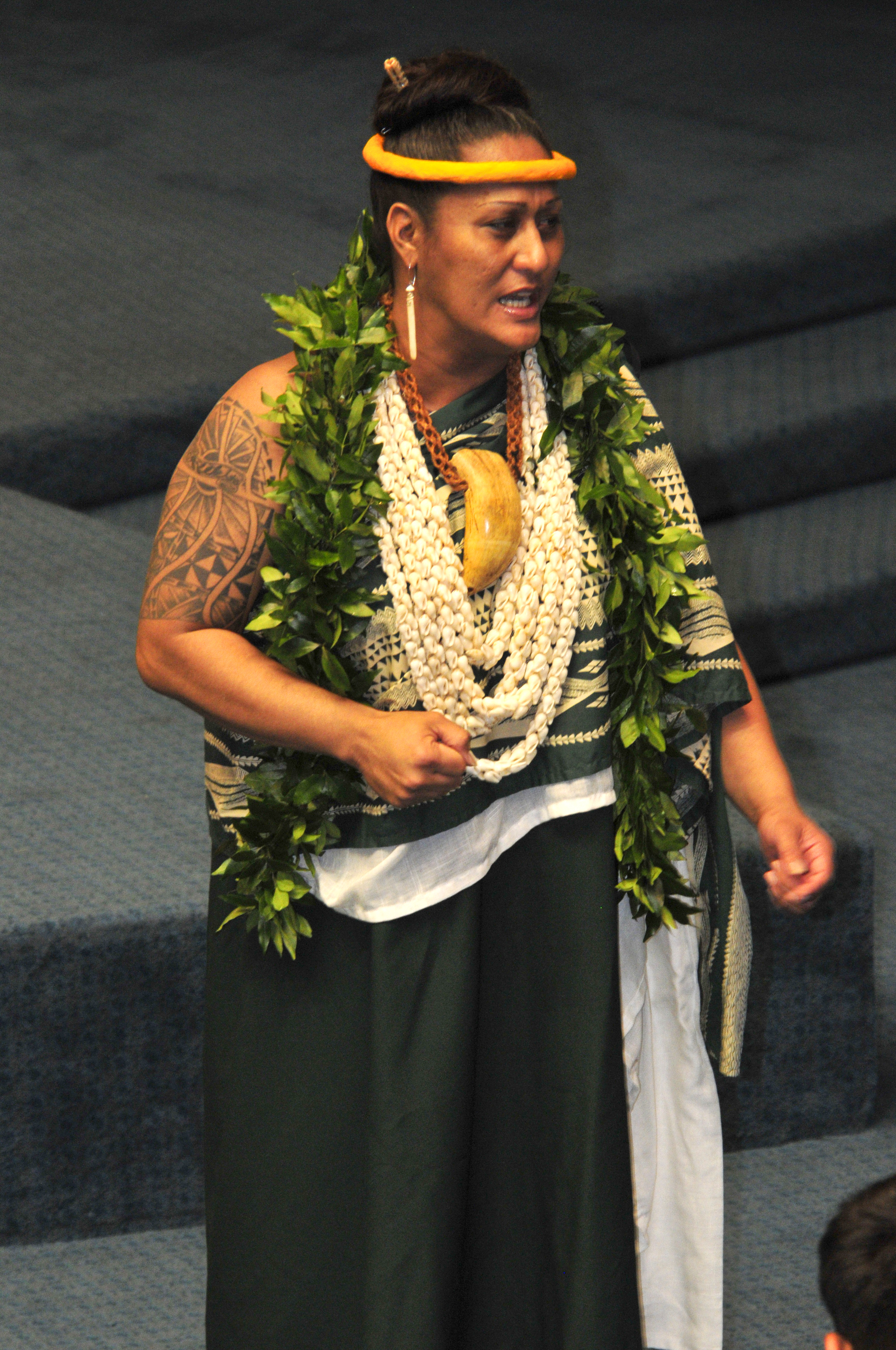 Kumu Hula Hinaleimoana Wong from the Kalu Halau Lokahi Public Charter School says the Hawaiian blessing during the Hawaiian Medal of Honor Ceremony at the State Building in Honolulu, March 27, 2013. As of Dec. 31, 2012, Hawaii has lost 327 Service members with Hawaiian ties who gave their lives in support of Operation Iraqi Freedom and Operation Enduring Freedom. (U.S. Army photo by Sgt. Daniel Schroeder/Released)